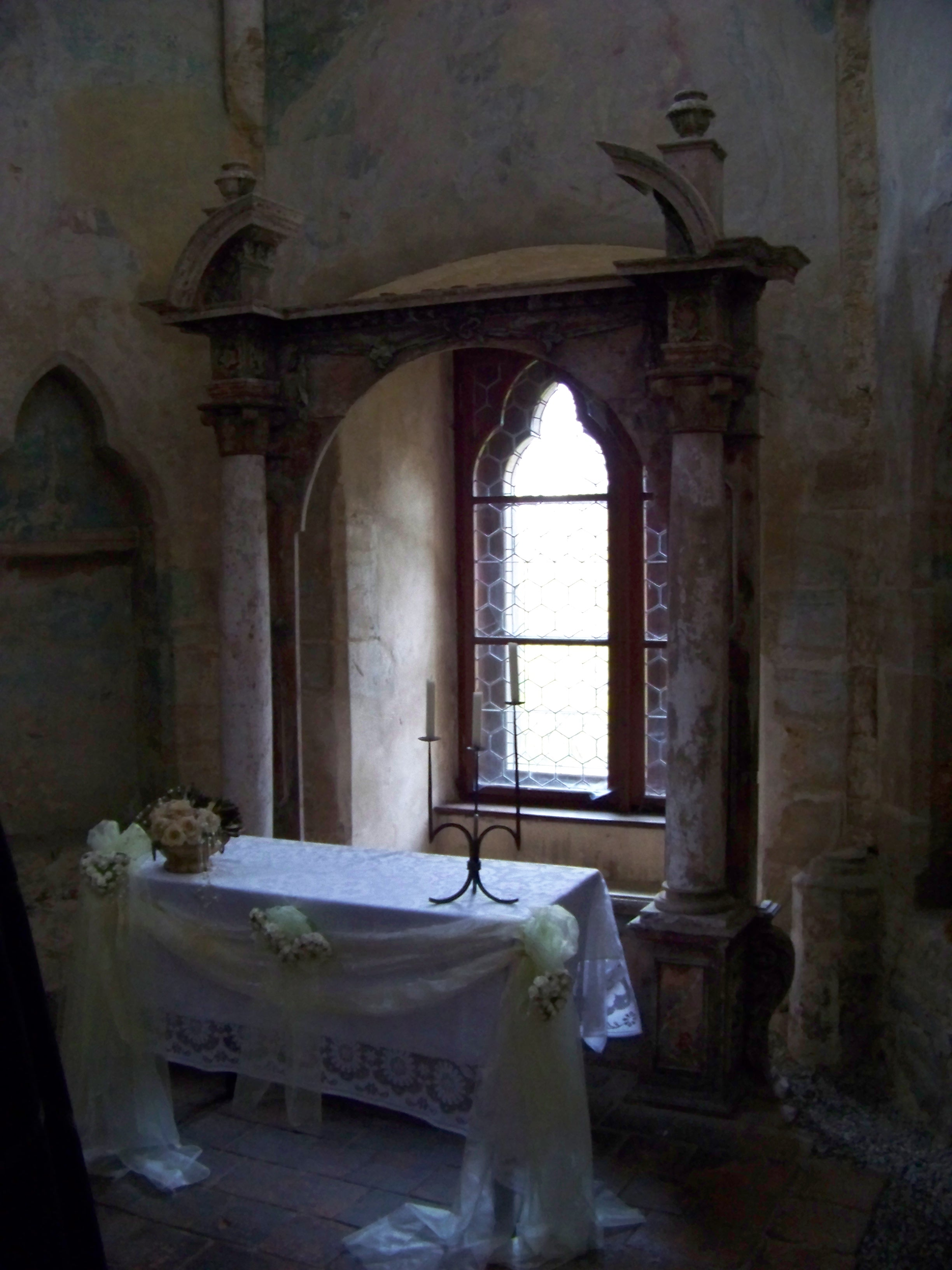 Houska Castle, Česká Lípa District, Liberec Region, the Czech Republic. Castle Chapel, altars at the south-east side of the chapel.